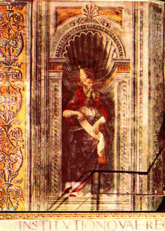 Pope Anacletus in the Sistine Chapel